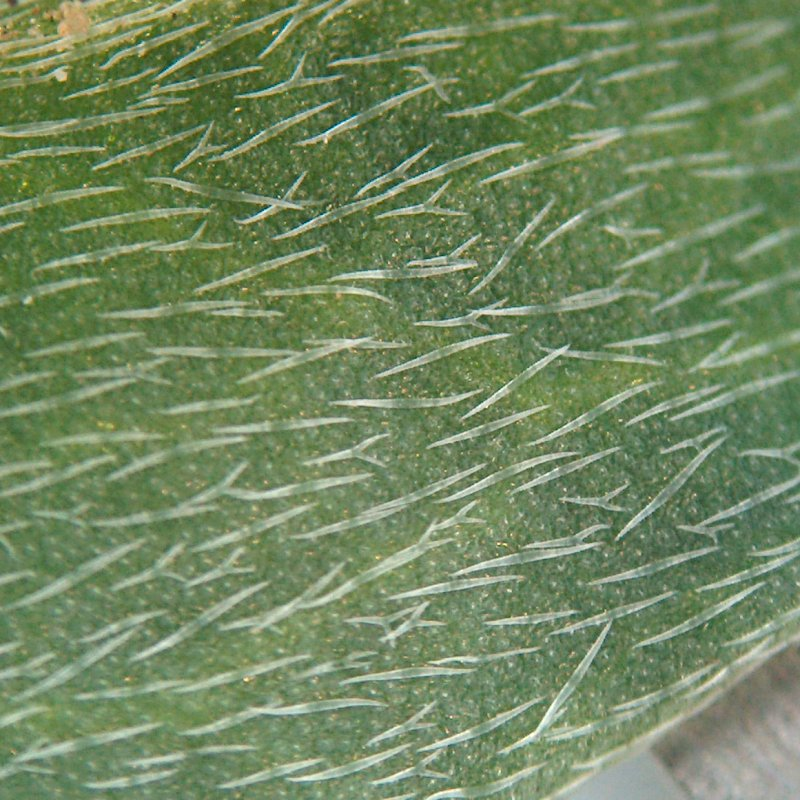 Scientific Name: Erysimum capitatum (Hook.) Greene var. capitatum Common Name: Western Wallflower Certainty: positive (notes) Location: Colorado Plateau; Escalante; Cad's Crotch Date: 20060414 Classic dolabriform trichomes under leaf, at 30x. Several 3-branched hairs are also visible.